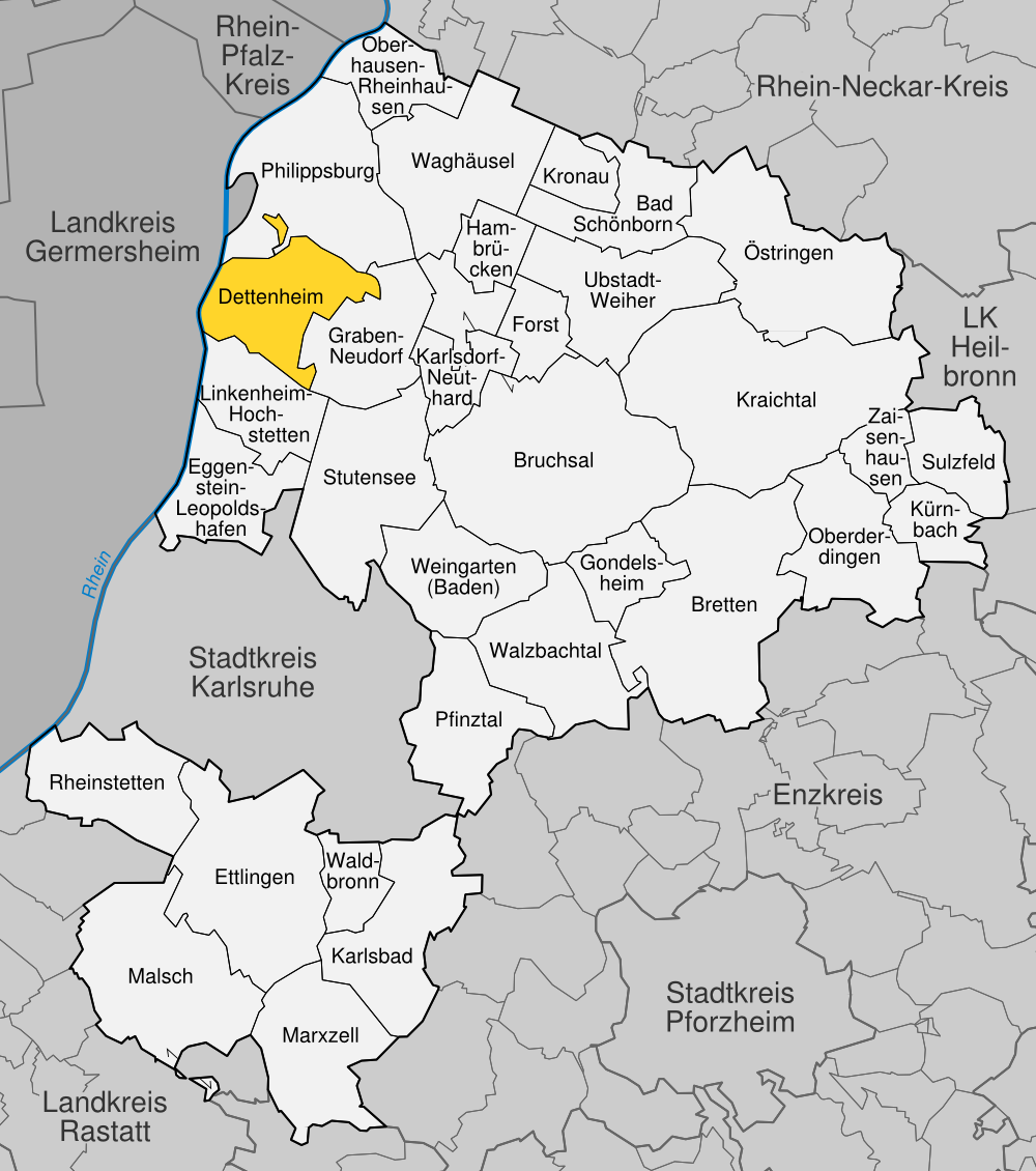 position of Dettenheim within distict of Karlsruhe, Baden-Württemberg, Germany